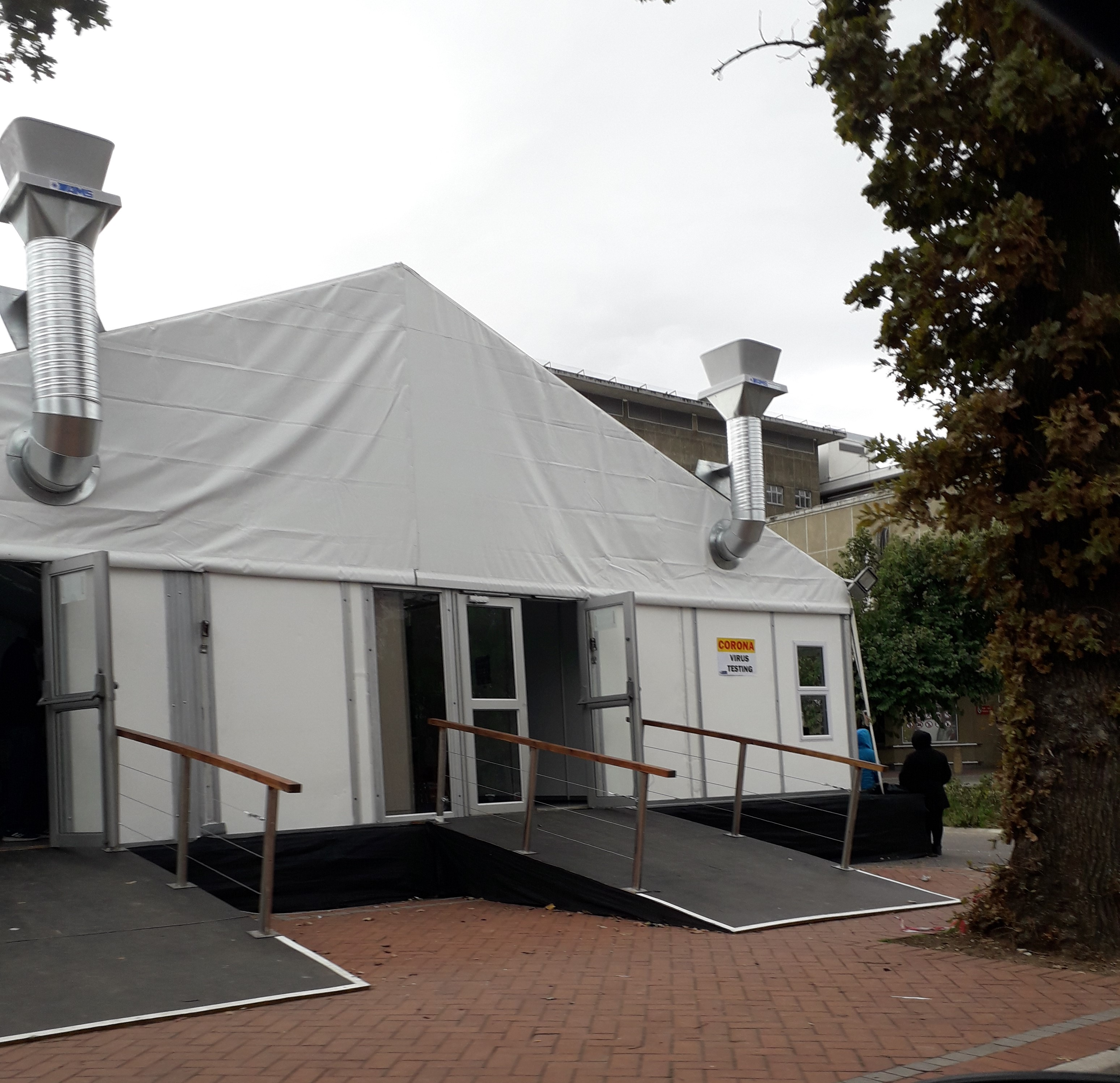 In response to the COVID-19 outbreak in South Africa, the Paarl Provincial Hospital erected a COVID-19 testing test on its facilities to provide a safe space for testing to be conducted